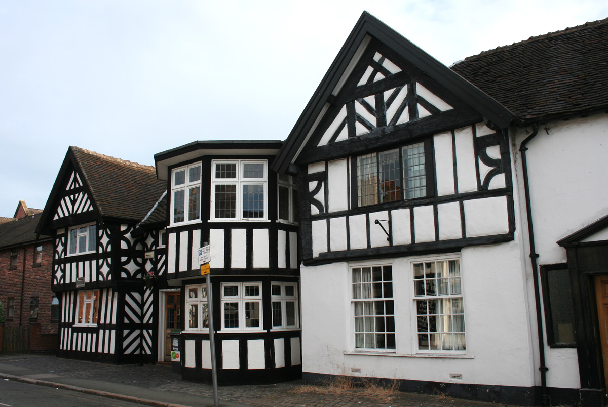 Sweetbriar Hall, Nantwich, Cheshire